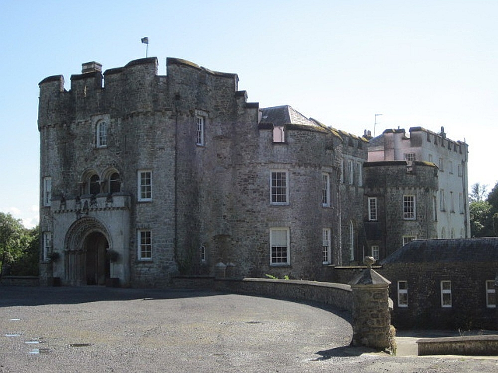 Picton Castle Pembrokeshire UK